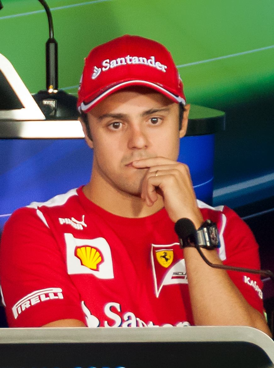 Felipe Massa at a pre-race press conference for the 2012 Italian Grand Prix